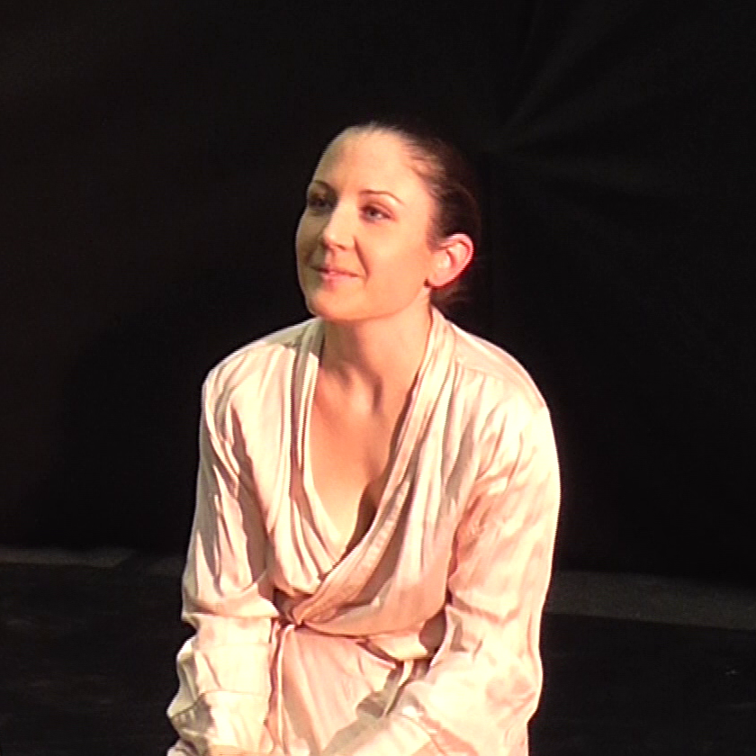 Eszer Herold dance artist